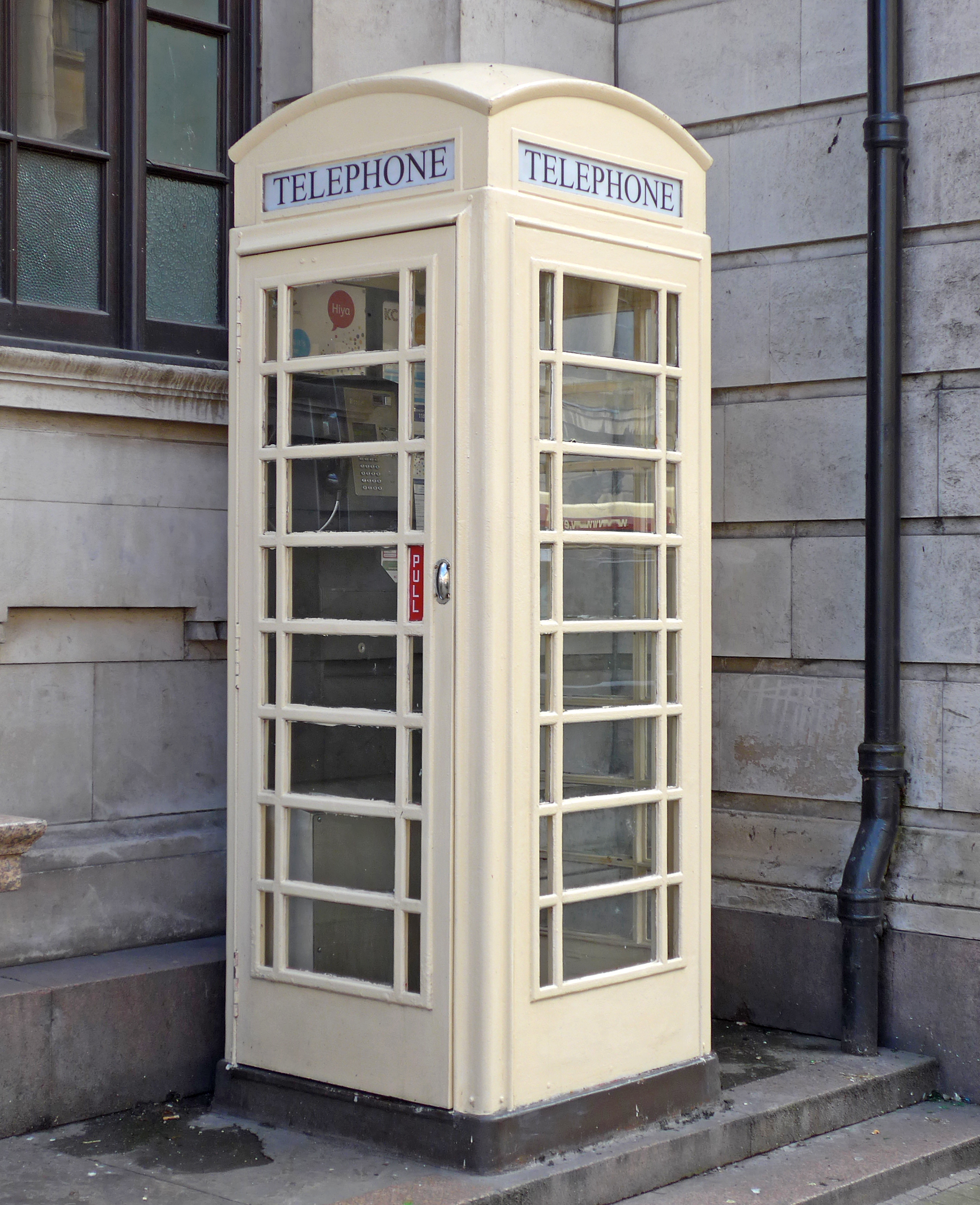 Hull telephone box